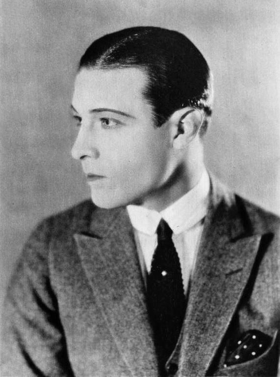 Rudolph Valentino, on page 15 of the January 1922 Photoplay.